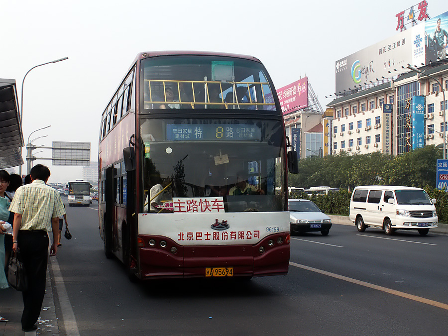 A Changzhou Changjiang double-decker bus operating in Beijing, China. Photo taken and uploaded by Robert McConnell (The Port of Authority.)